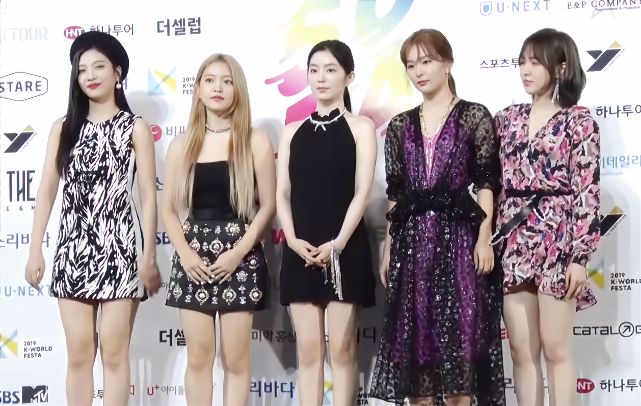 Red Velvet at Soribada Awards on August 23, 2019